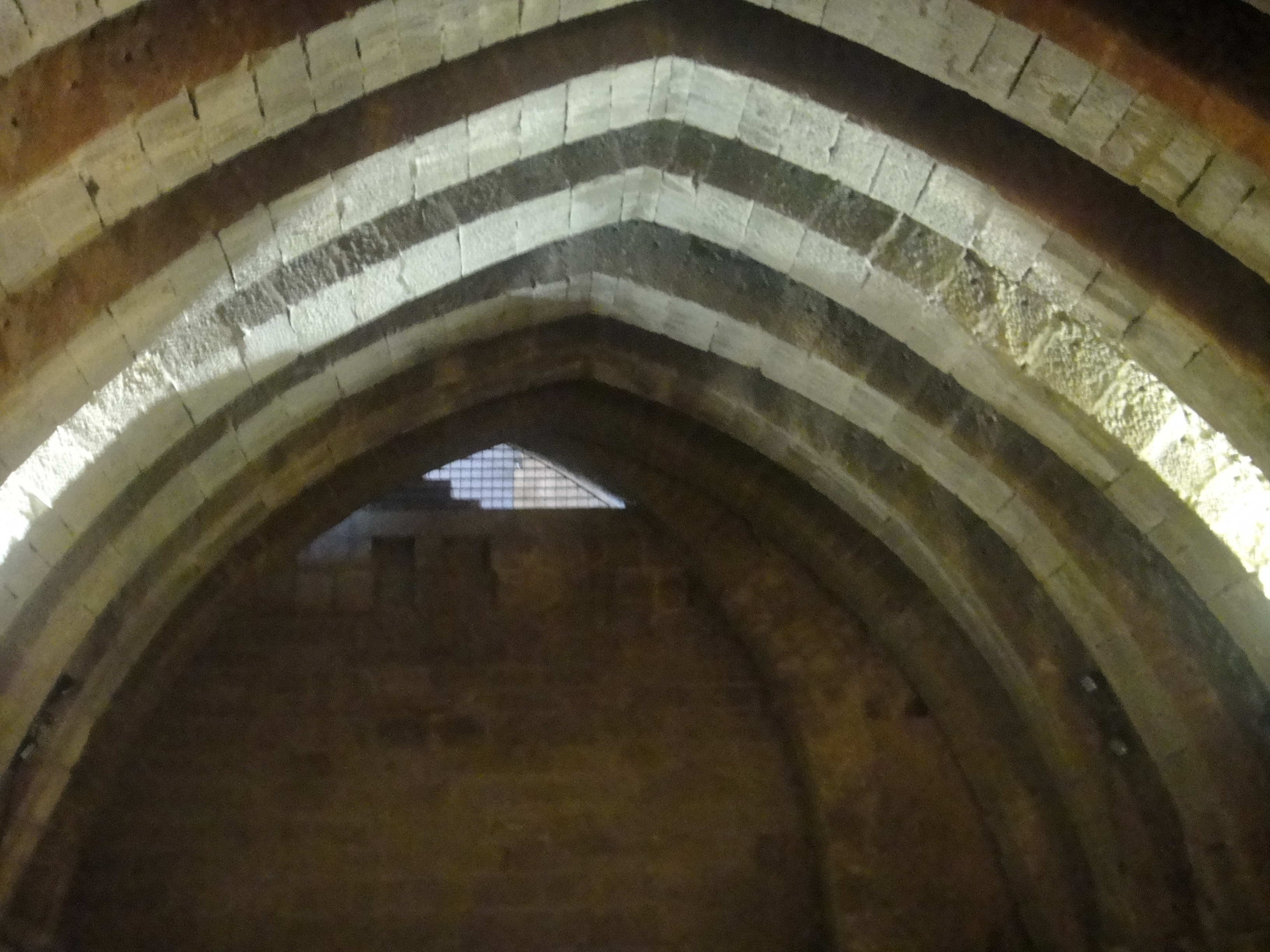 Royal palace of Olite. Spain.